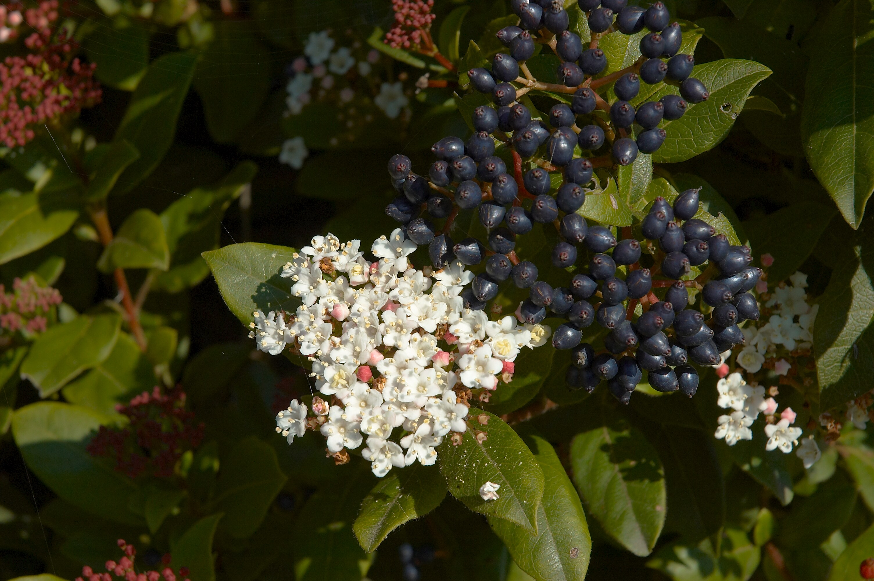 Viburnum tinus. This photo has been taken in Belgium.